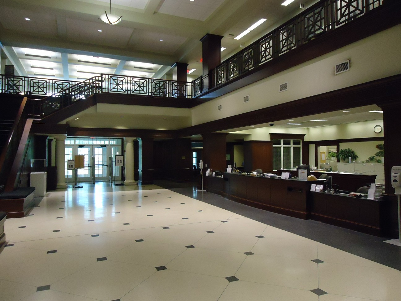 Library. Campus view of The College of New Jersey or TCNG, in Ewing, New Jersey.